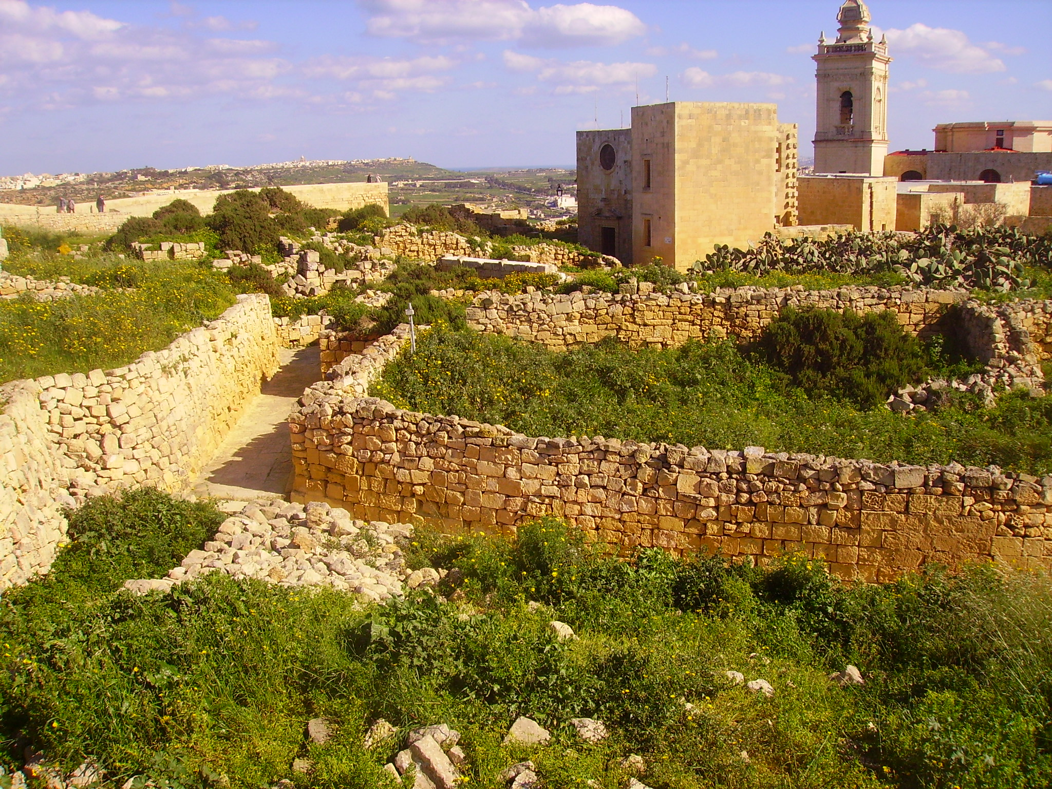 Citadel, Victoria